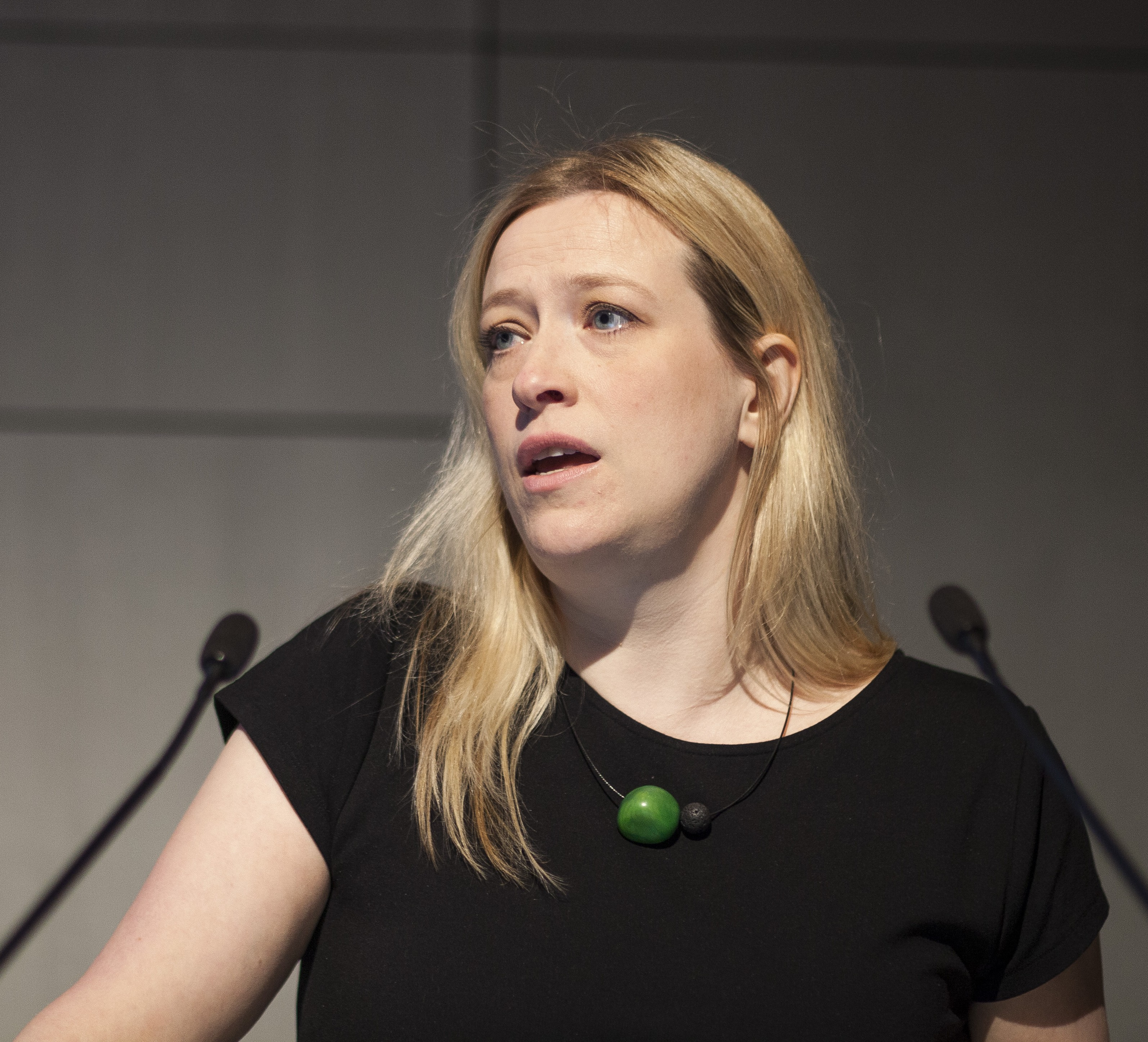 Eygló Harðardóttir at the 60th anniversary of the Nordic Labour Market conference, held at Harpa concert hall and conference centre in Reykjavík, Iceland.